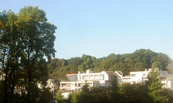 Yoyogi-5-Chome neighborhood in Tokyo`s Shibuya Ward, overlooked from the Yoyogi Park